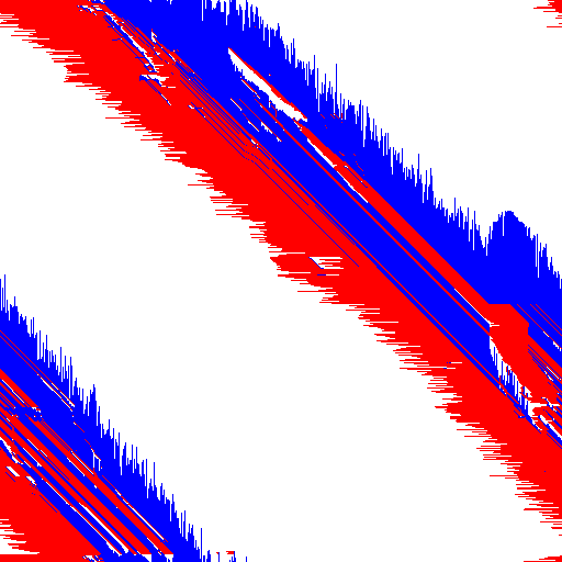 A lattice for the Biham-Middleton-Levine traffic model after 64000 iterations. The lattice is 512 by 512, with a traffic density of 38%. The red cars and blue cars take turns to move; the red ones only move rightwards, and the blue ones move downwards. Every time, all the cars of the same colour try to move one step if there is no car in front of it. The initial position before running is shown in File:Bml x 512 y 512 p 38 iterated 0.png. The graph of mobility versus time (mobility is the number of cars that can move in a particular turn) is shown at File:Bml x 512 y 512 p 38 MOBILITY.png. This was created with C++. Source code is located at user:Purpy Pupple/BML.